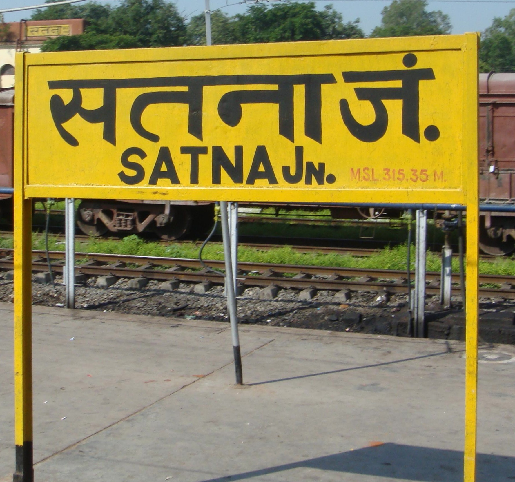 Satna junction.cropped